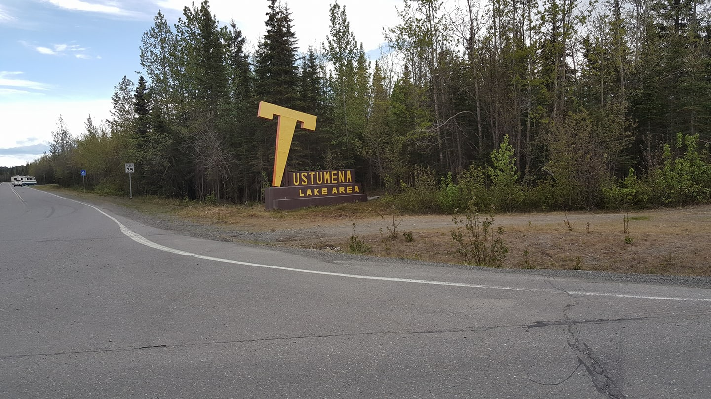 "The big crooked T" same location as File:BigTsign.jpg, but the graffiti has been cleaned off, Tustumena Lake road, Alaska